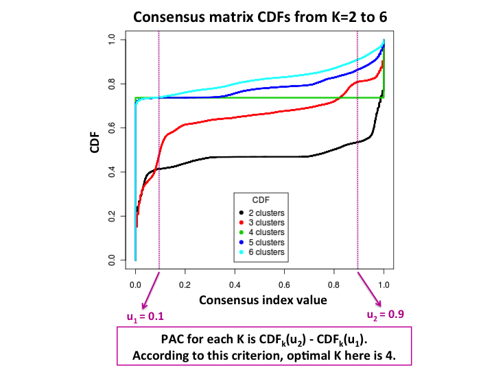 Proportion of ambiguous clustering (PAC) as used in consensus clustering (Senbabaoglu et al, 2014)